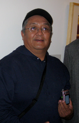 David Velarde, Jicarilla Apache playwright, poet, and prose author